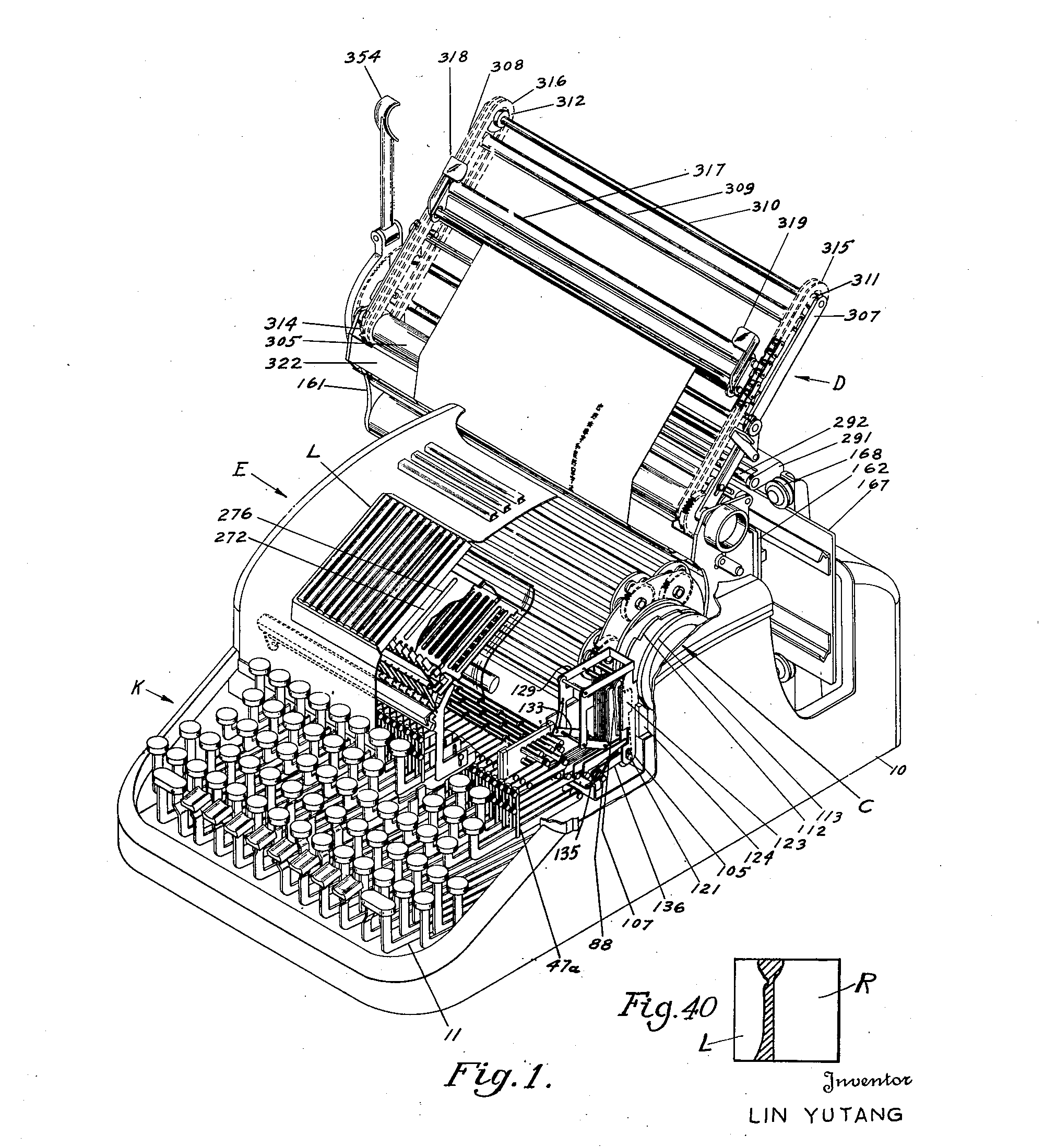 Ming Kwai typewriter invented by Lin Yutang as it appears in the United States patent. Cropped image from the original.